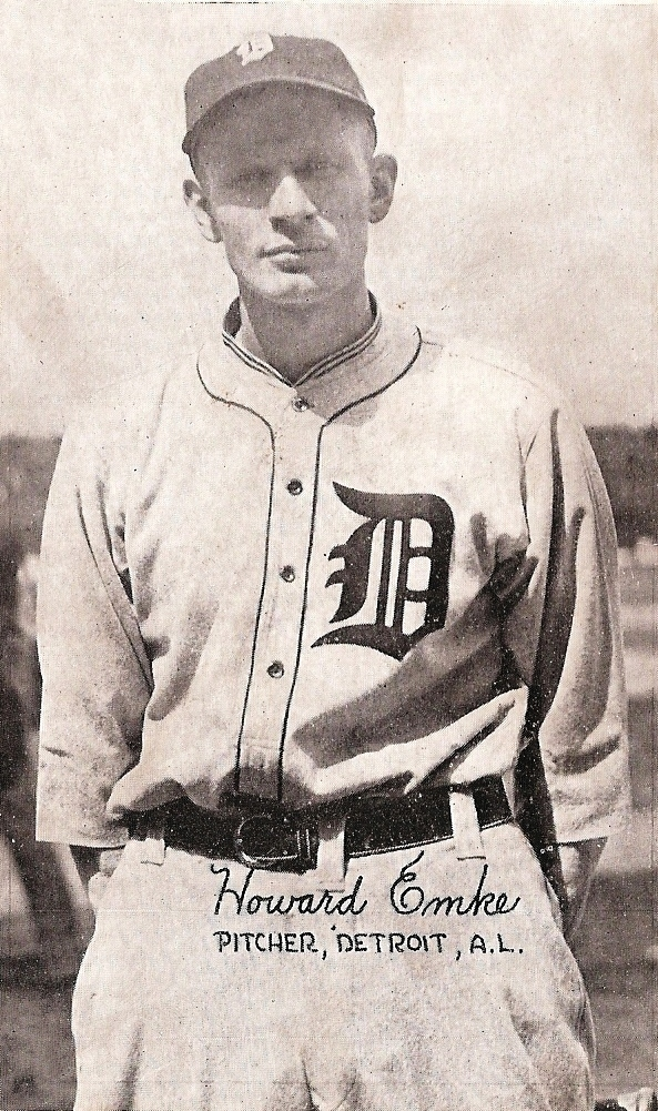 This is a published postcard that I purchased years ago at a baseball memorabilia show. The picture is of Howard Ehmke as a Detroit Tiger, circa 1920.